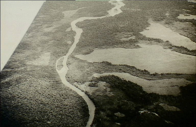 AWM Caption: Kumusi River, Papua, c. 1942-12-28. Aerial view from the window of a United States Army Air Force (USAAF) Douglas C47 aircraft of the Kumusi River snaking its way through jungle-covered terrain. The aircraft is transporting members of the 2/4th Field Ambulance from Popondetta to Port Moresby after the unit's four-month campaign along the Kokoda Trail. The flight back to Port Moresby took a mere 35 minutes.